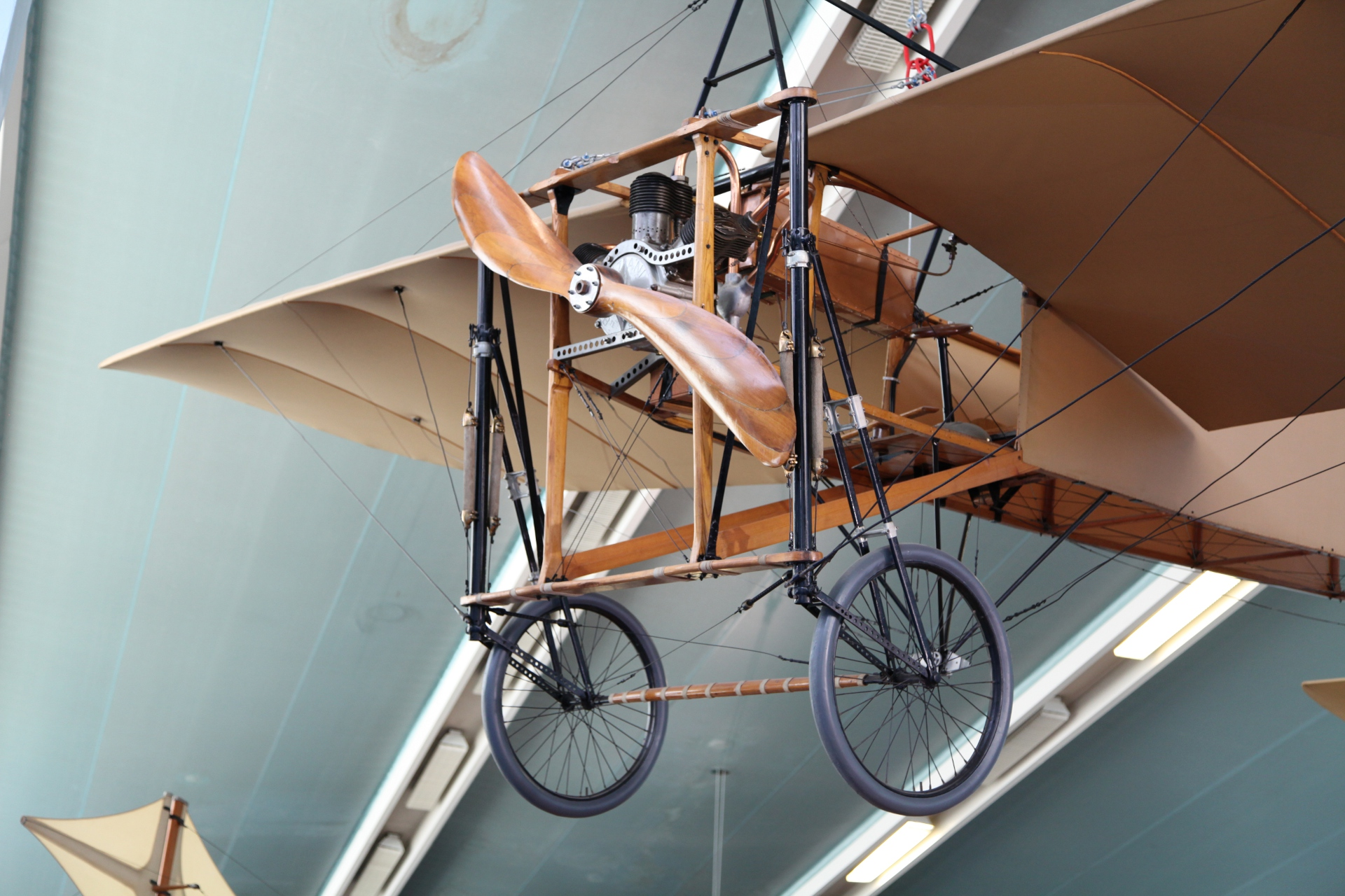 The Bleriot XI - Museum of Air and Space - Le Bourget - France